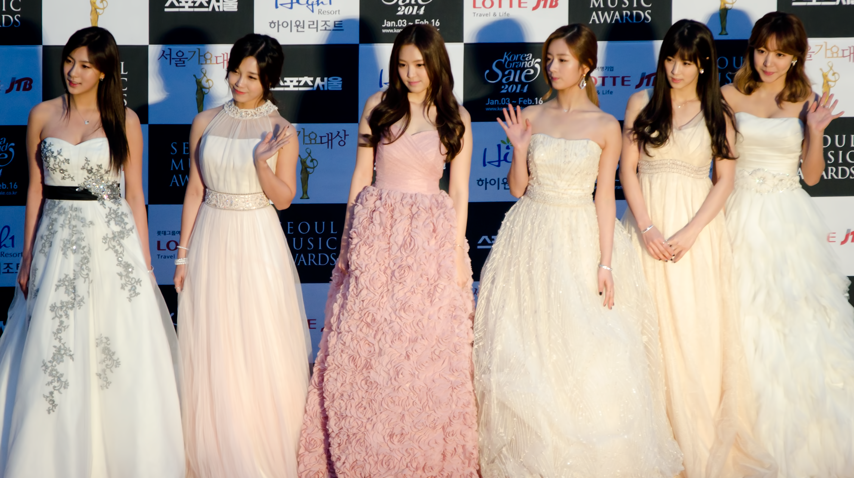 A Pink at 2014 Seoul Music Awards, 23 January 2014. Left to right: Hayoung, Eunji, Naeun, Bomi, Chorong and Namjoo.